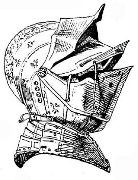 Close helm with upper and lower visors (the forehead and bevor could be opened like visors too), Insbruck 1547